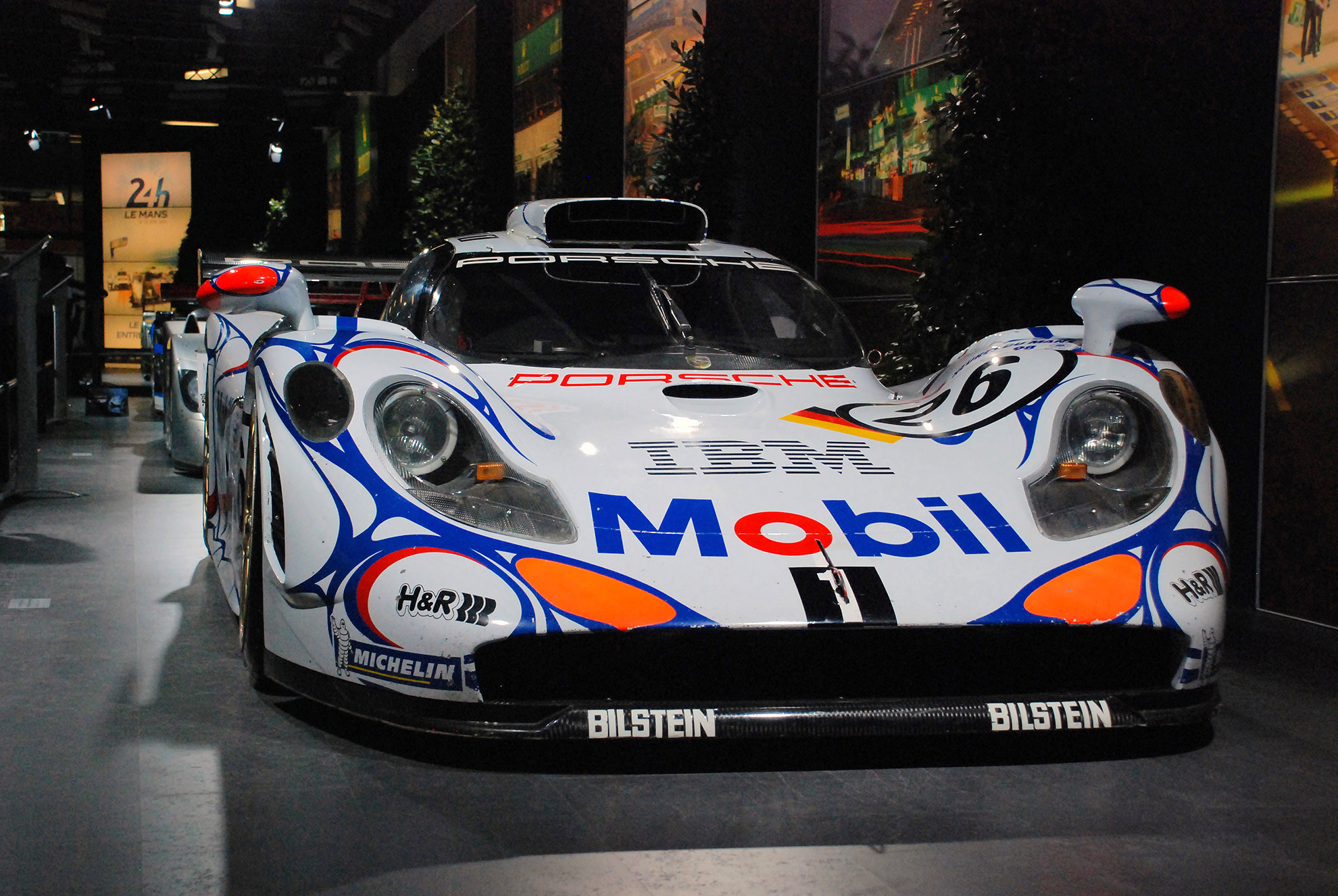 Porsche 911 GT1 n°26 (winner of the 1998 24h of Le Mans race)